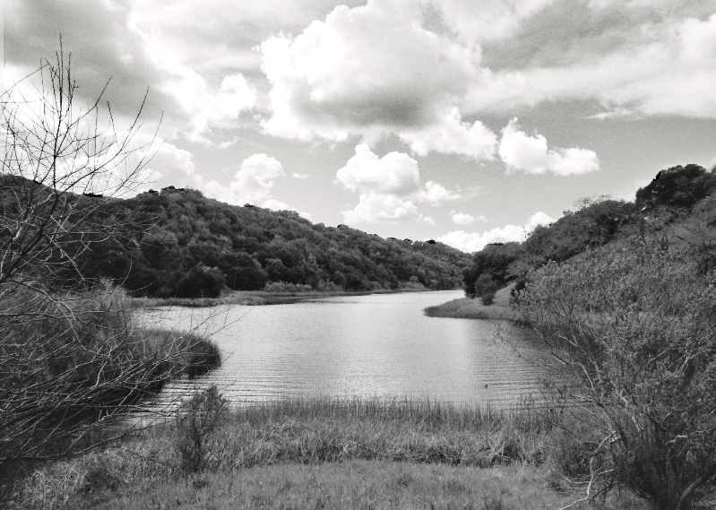 Scene at Briones reservoir in California